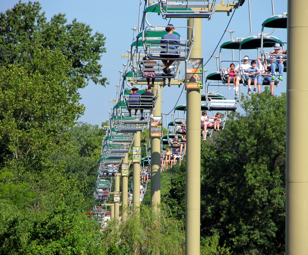 African Sky Safari, a modified ski lift, at Kansas City Zoo, Missouri, USA.